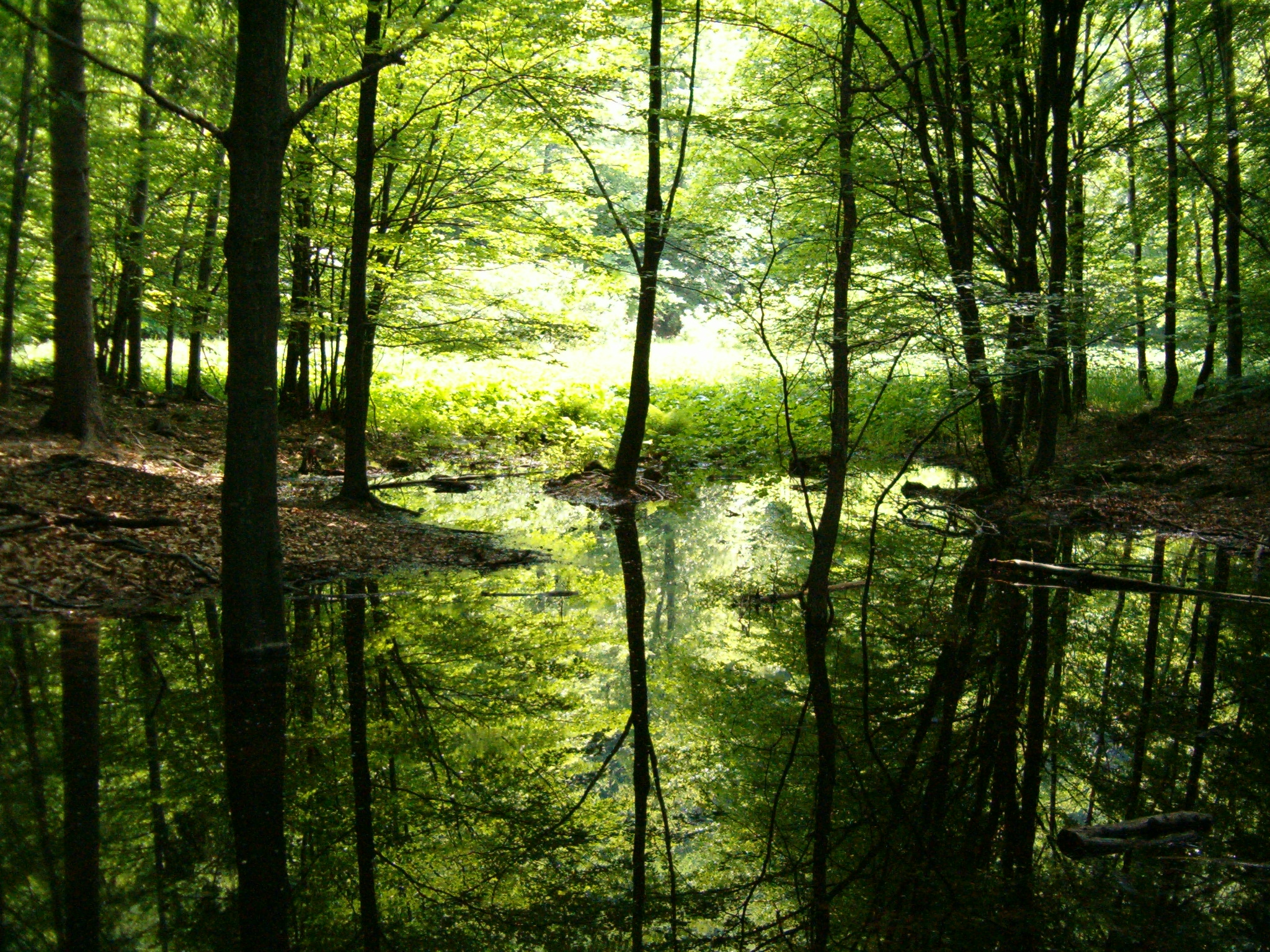 A swamp in the Mátra Mts. (Hungary)